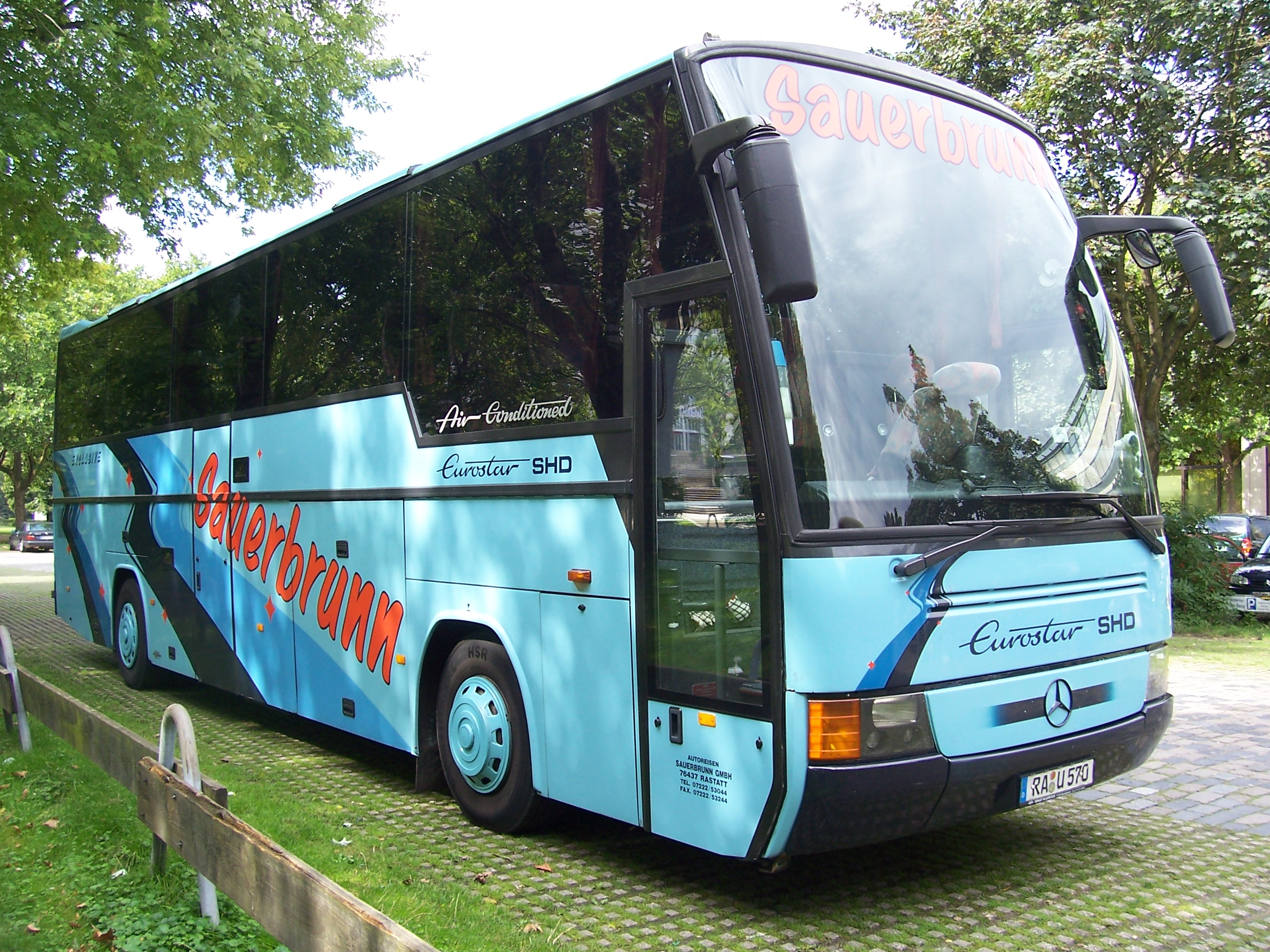 Ernst Auwärter Eurostar SHD coach (reg. RA-U 570) with Mercedes-Benz O 404 chassis in Mannheim, Germany. Autoreisen Sauerbrunn GmbH from Rastatt operator.